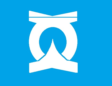 Flag of Mashiko Tochigi